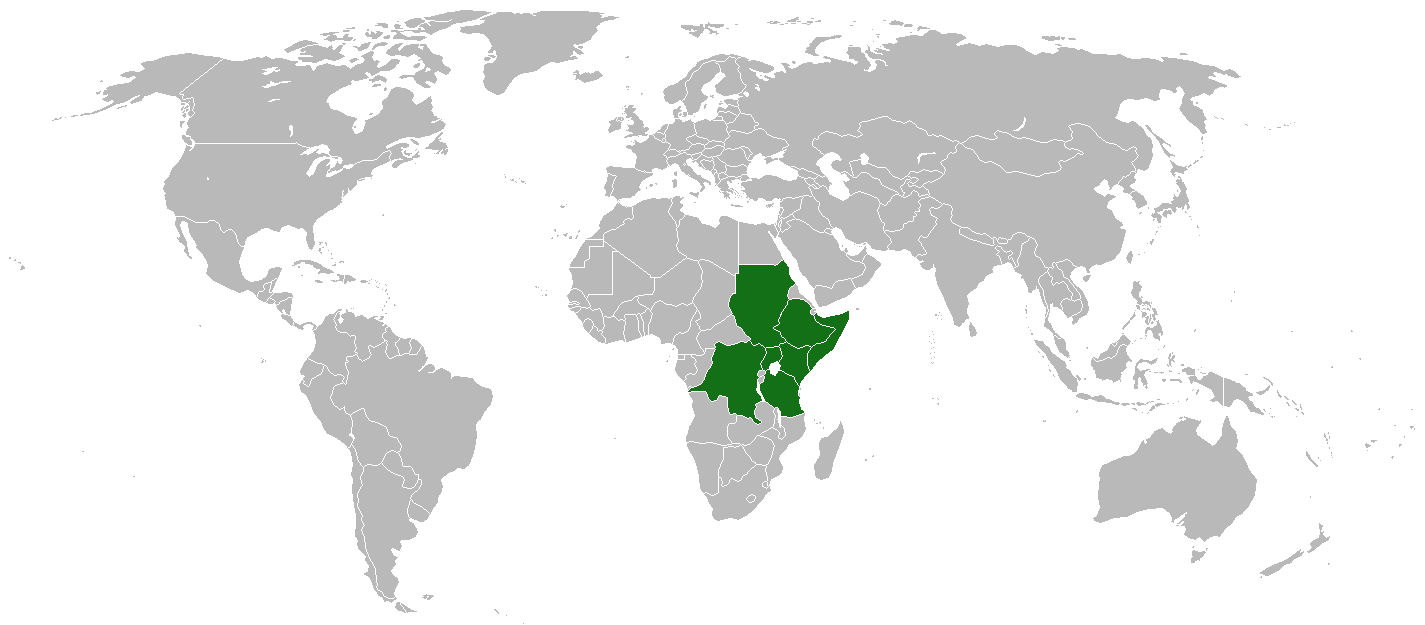 Range of the whistling thorn (Acacia drepanolobium), created using information from [1] and [2]. Original map template was from File:BlankMap-World.png.